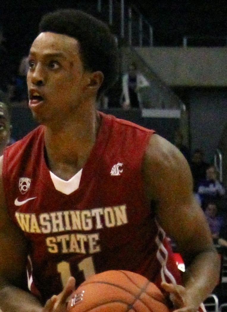 Washington State University basketball player Faisal Aden plays against the University of Washington in the 2011 Pac-10 Tournament.